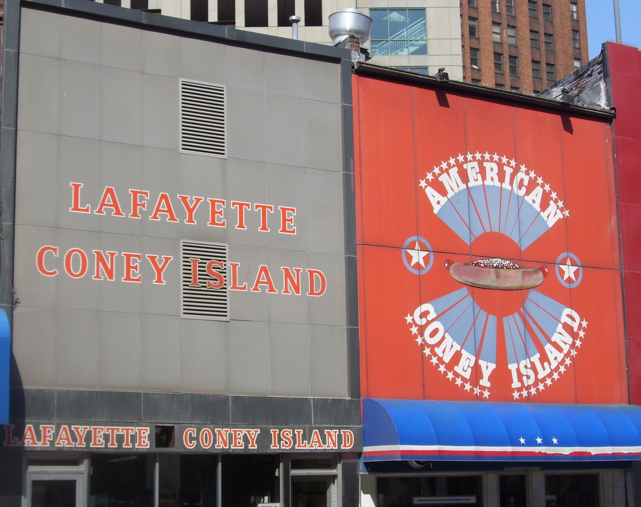 Lafayette Coney Island and American Coney Island on West Lafayette Boulevard in Detroit Michigan.